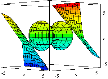 nonlinear programming